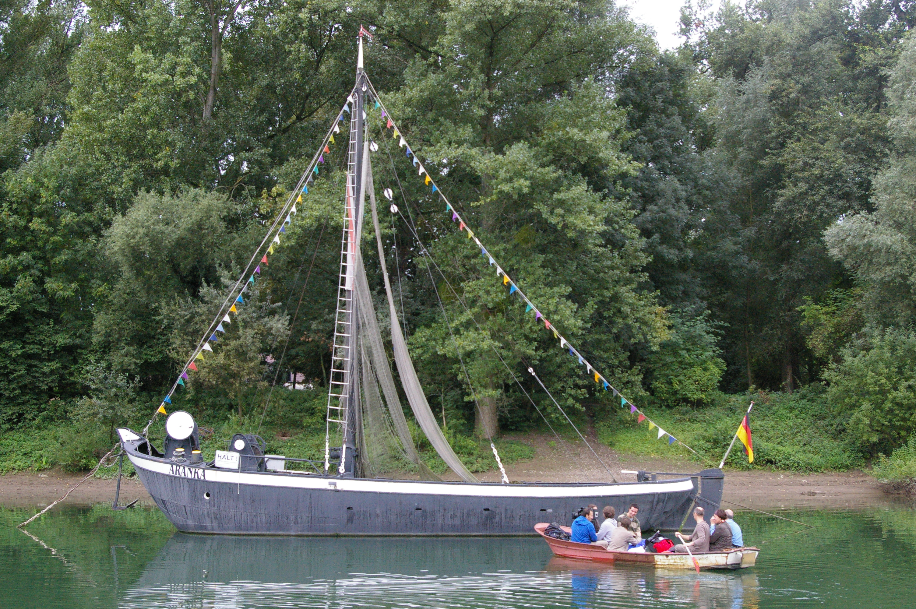 Aalschokker ARANKA Bad Honnef